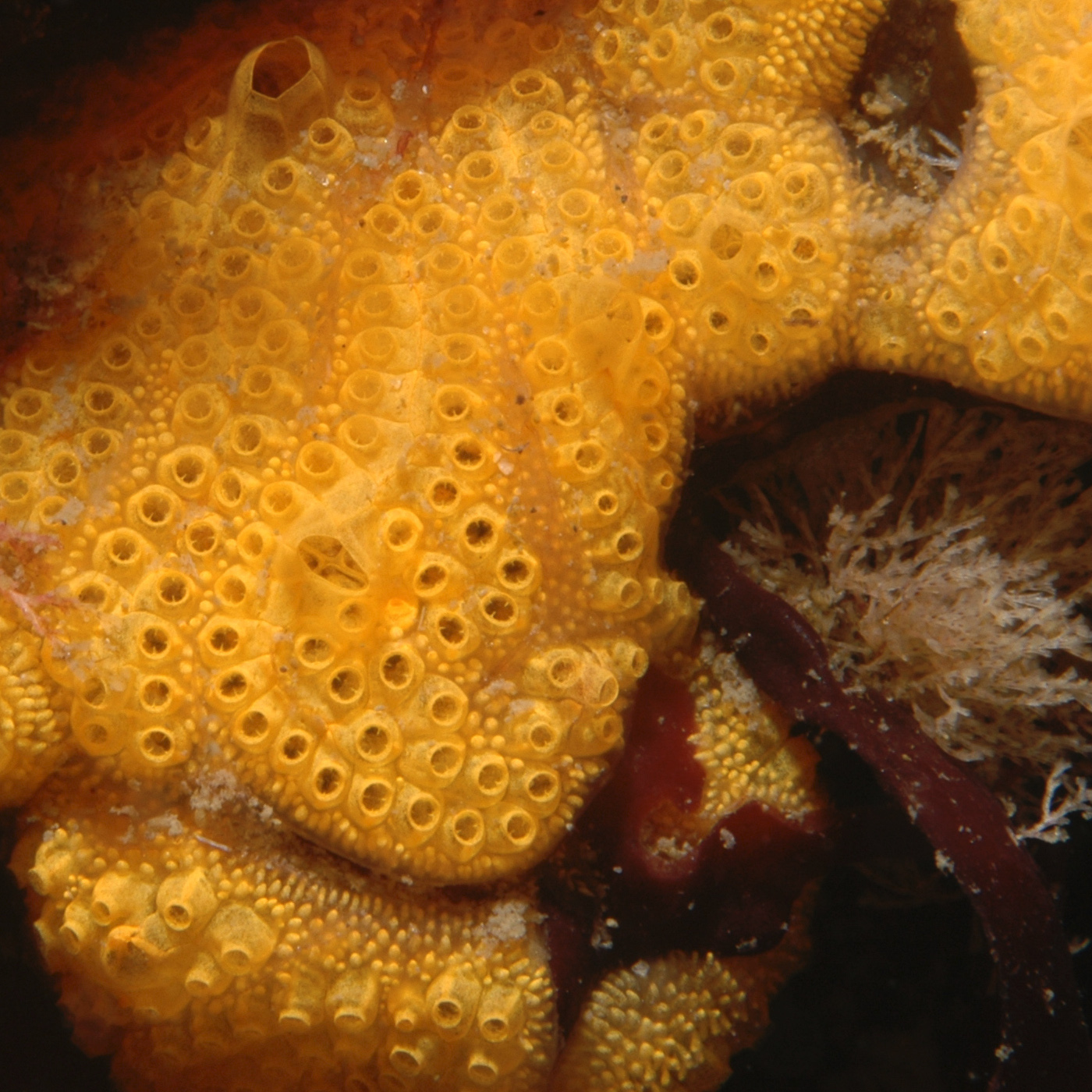 Tunicate colonies of Botrylloides violaceus. Note oral tentacles at openings of oral siphons; and new zooid buds within colonies and along margins of colonies.